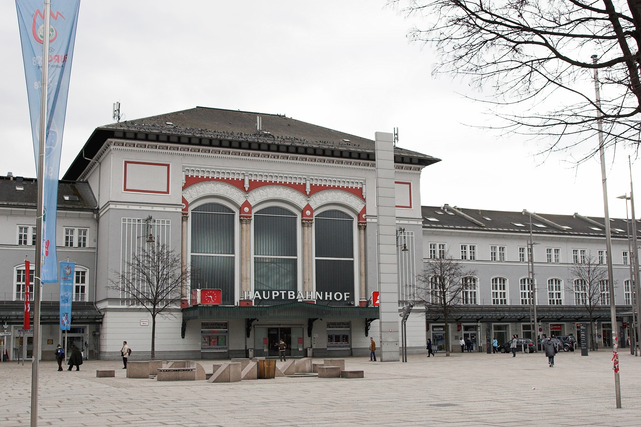 Main station building of Salzburg Hauptbahnhof, view from Südtiroler Platz